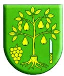 Hrušky (Břeclav) CoA CZ